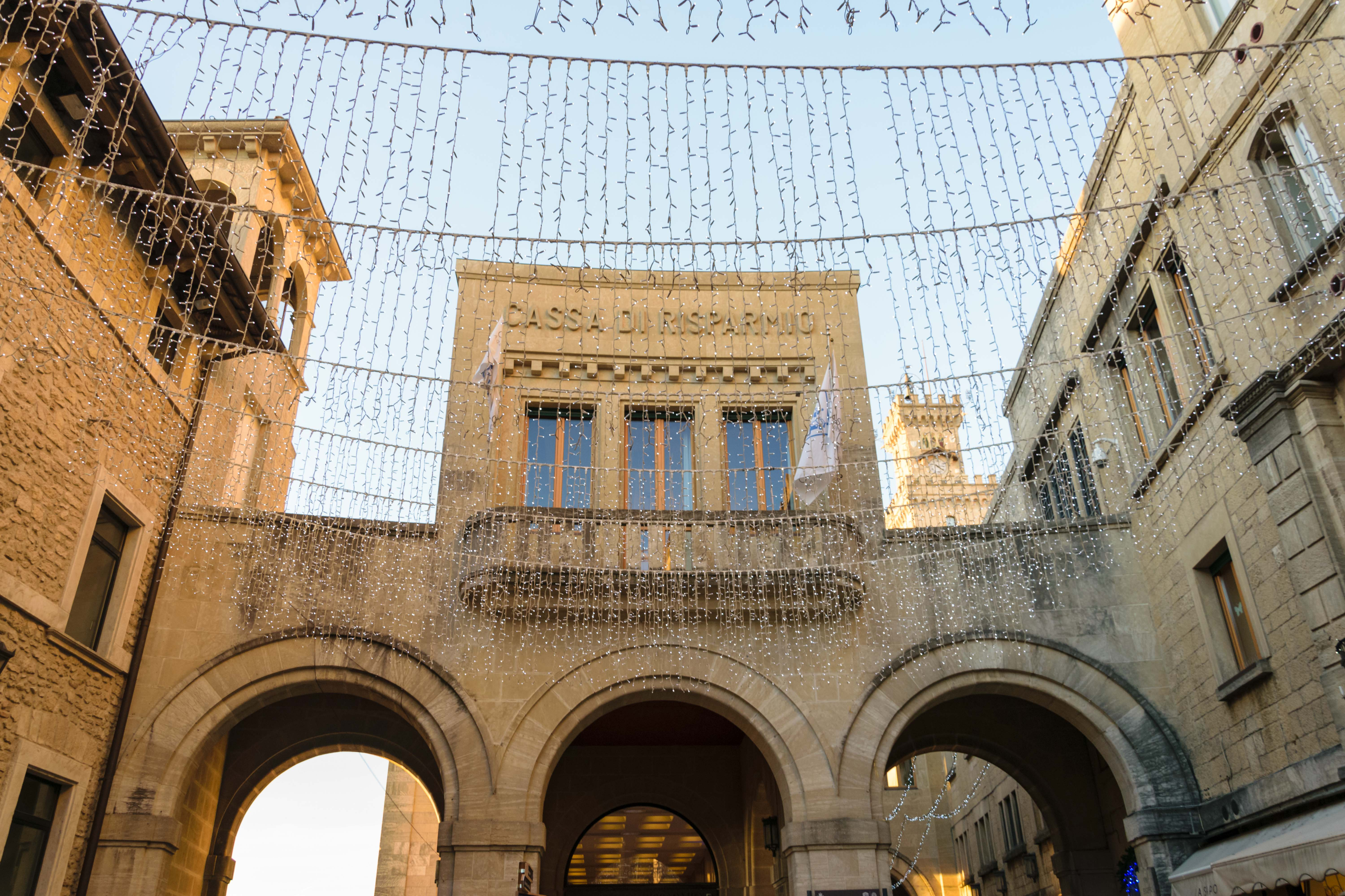 Main building of Cassa di Risparmio of the Republic of San Marino.